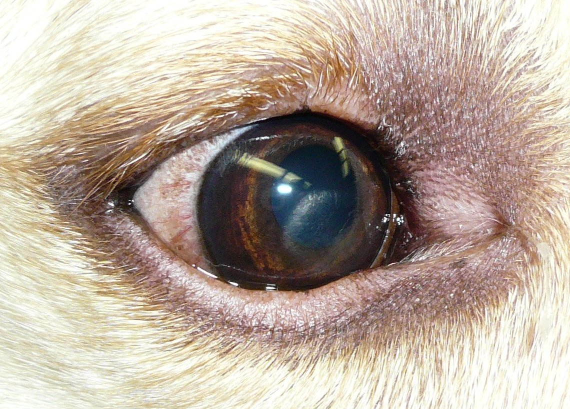 Corneal dystrophy in a Labrador Retriever.